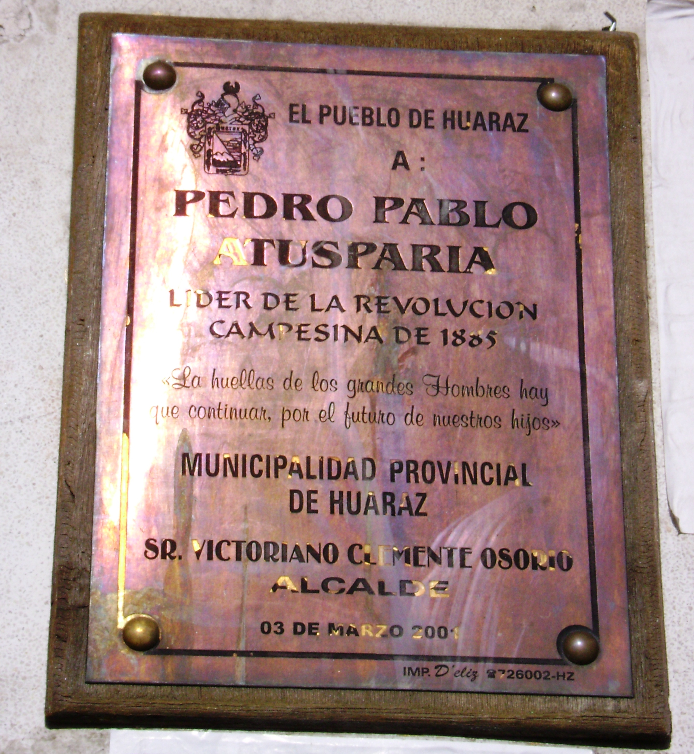 Plaque of the monument of Pedro Pablo Atusparia